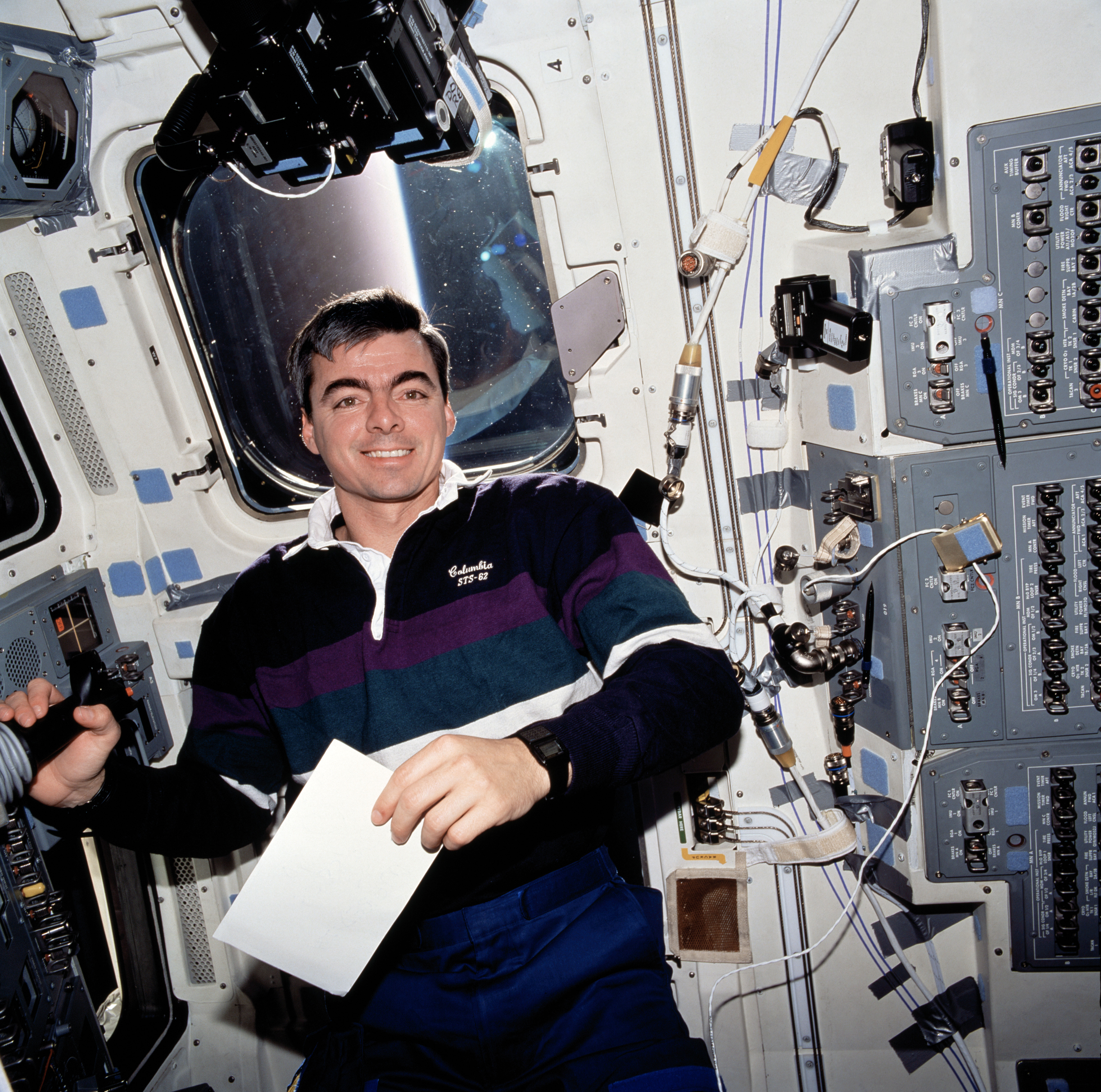 (March 13, 1994) Pilot Andrew Allen posed for this picture on the Space Shuttle Columbia's flight deck during STS-62. Allen flew on three Space Shuttle missions: STS-46, STS-62, and STS-75. Image #: sts062-113-099